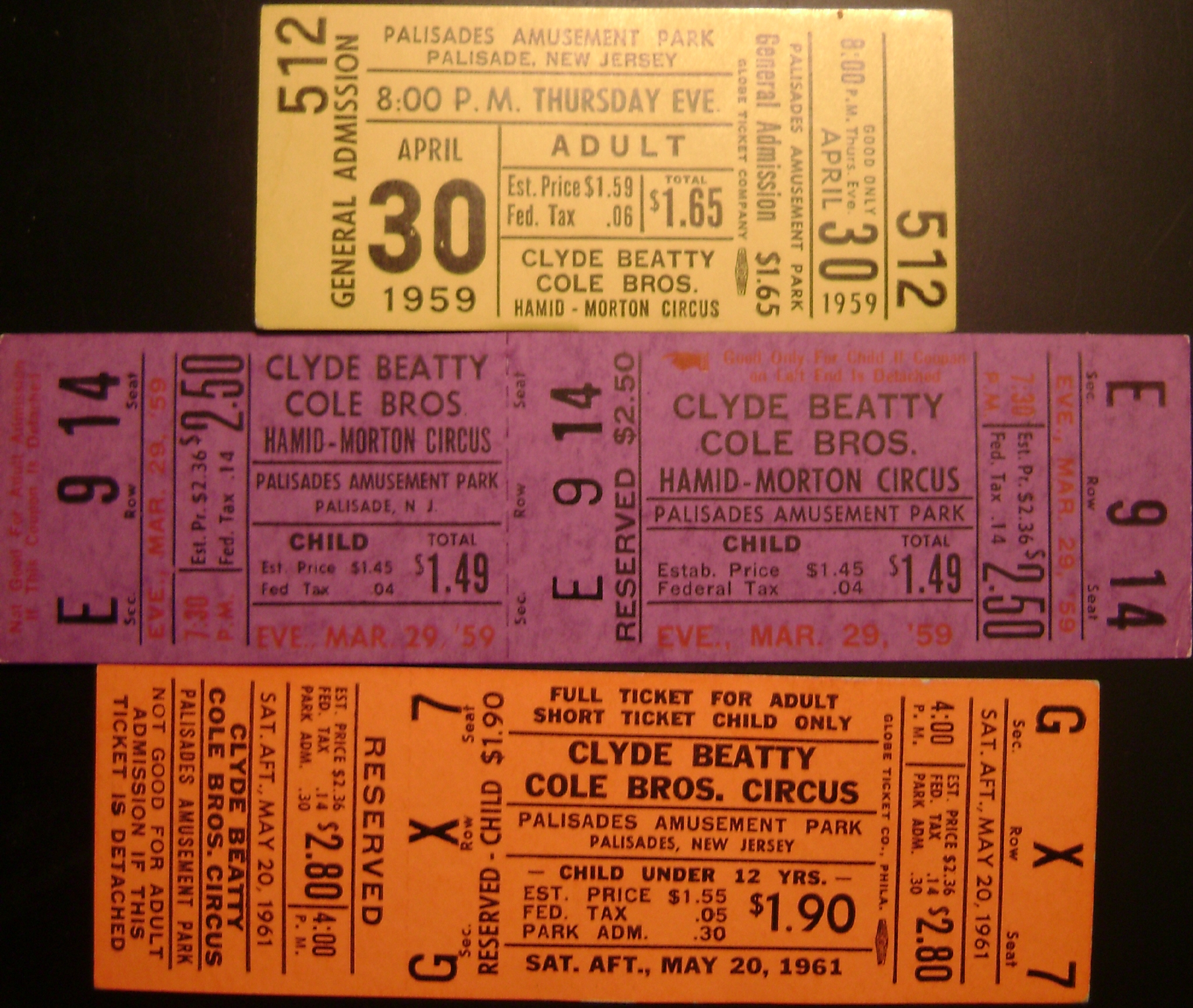 Photograph showing three tickets from the defunct Palisades Amusement Park in New Jersey, USA. The tickets, dated 1959 and 1961 include general admission to the park, as well as a combined general admission and a circus show.